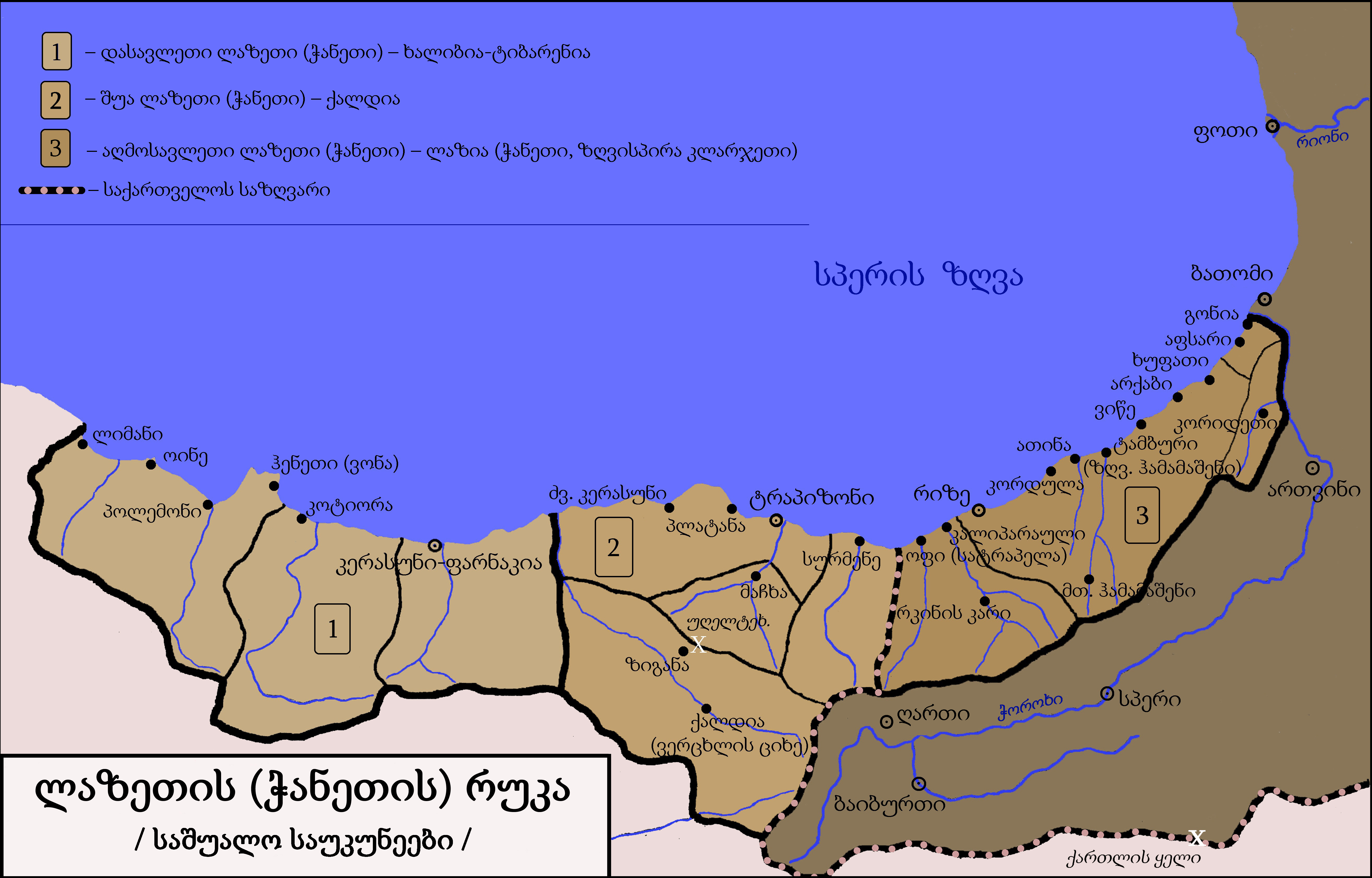 Lazistan (Middle Ages): (1) Western Lazistan, (2) Central Lazistan, (3) Eastern Lazistan